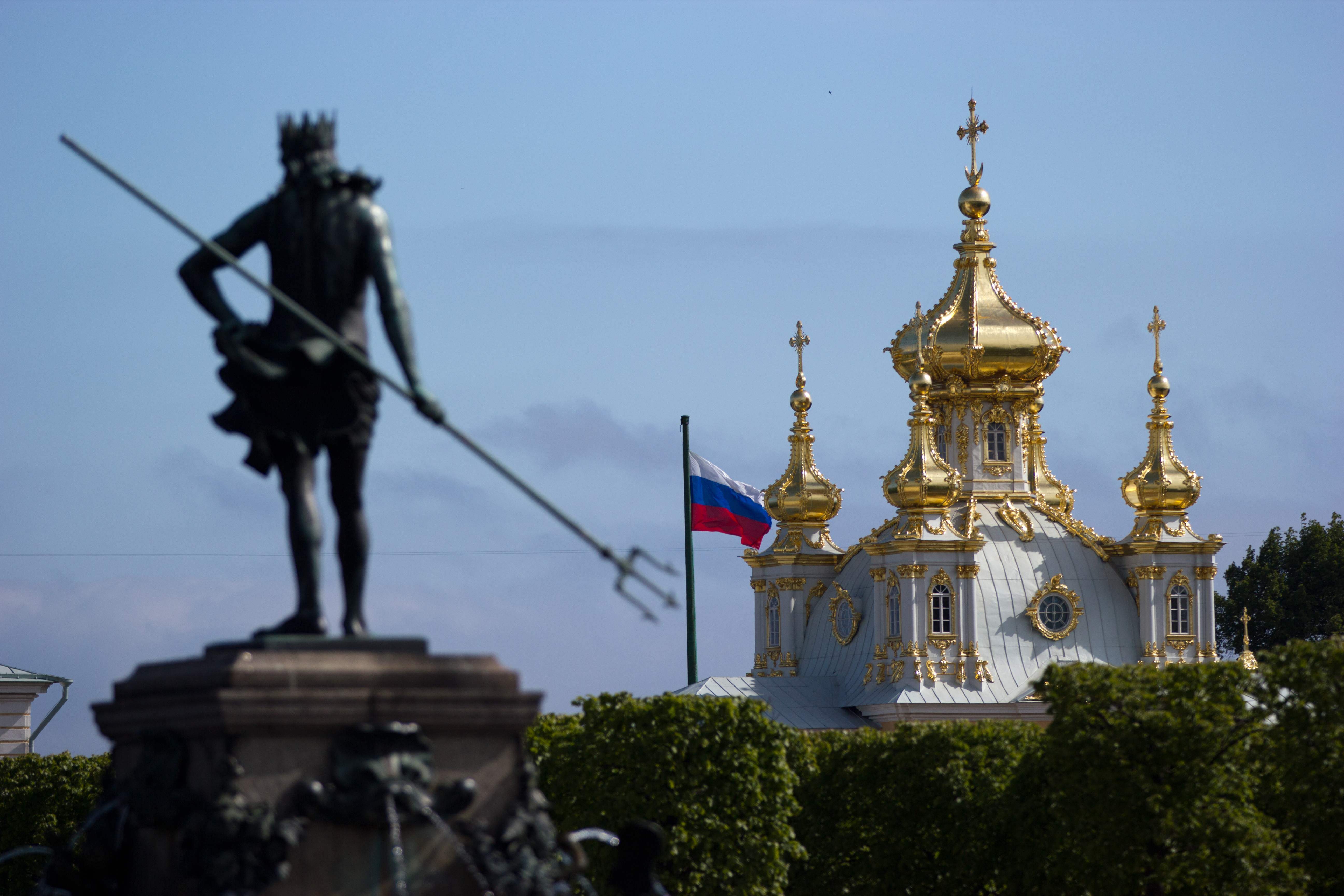 St.Petersburg Russia Summer Palace